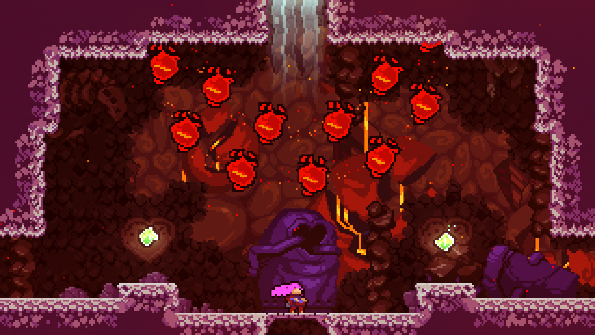 Screenshot of the 2018 video game Celeste